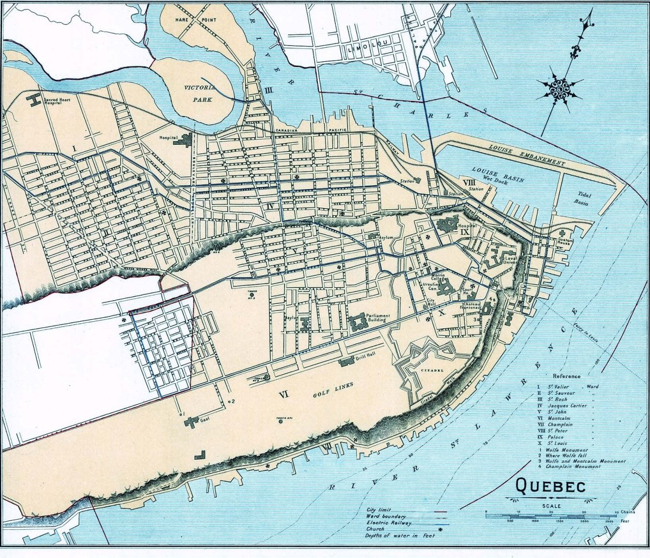 Quebec City map from 1906 (from Atlas of Canada)